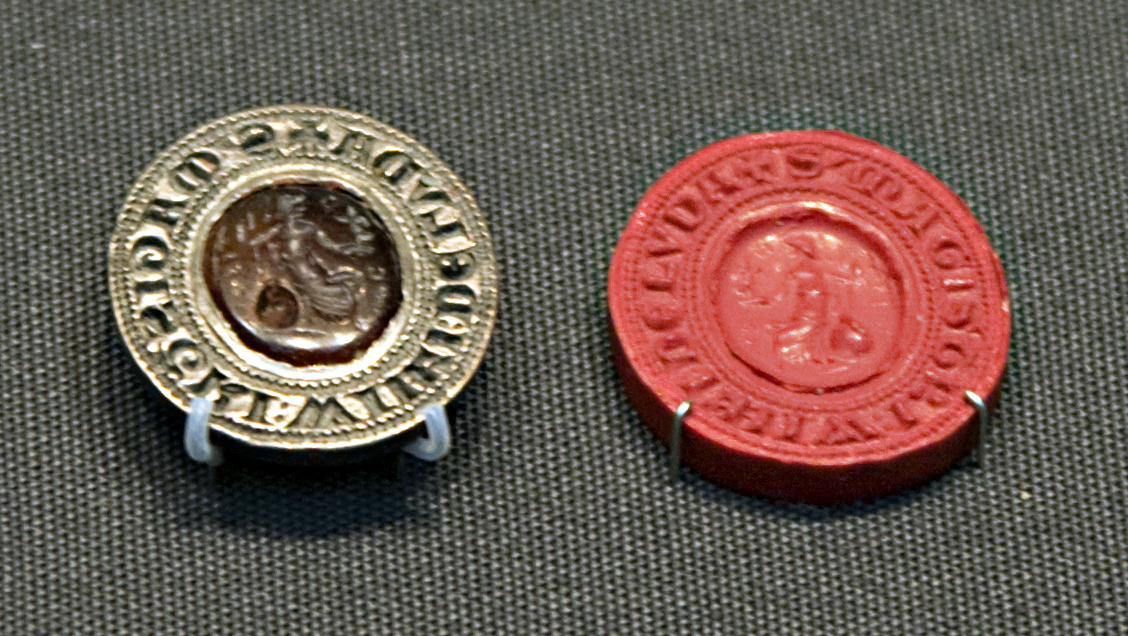 Medieval seal in the British Museum. Tag on exhibit reads: "Seal of William of Louth" and "About 1270-98 England Silver and Carnelian PE 1956,1203.1" See BM database entry for more details.